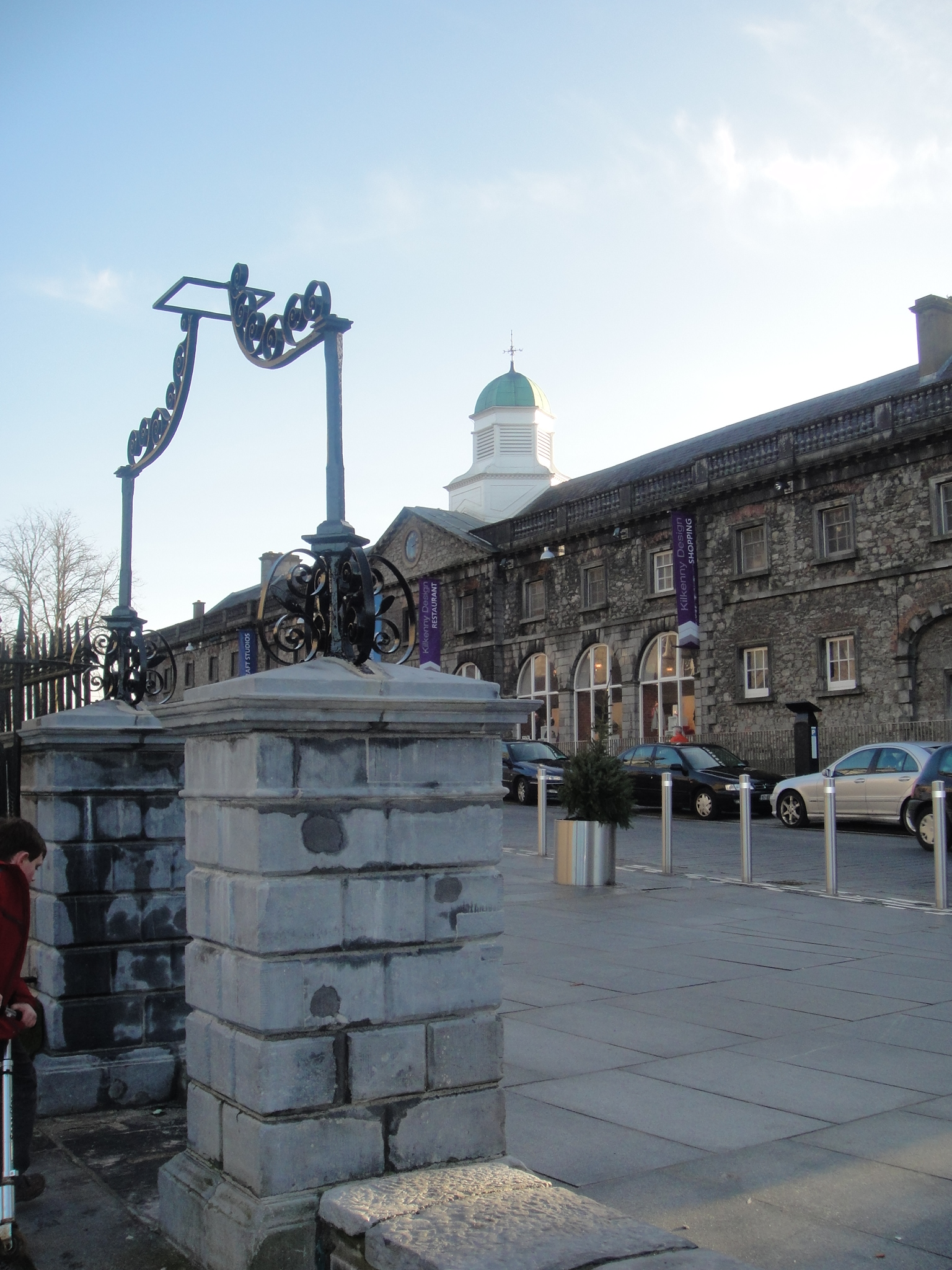 Kilkenny Design Centre